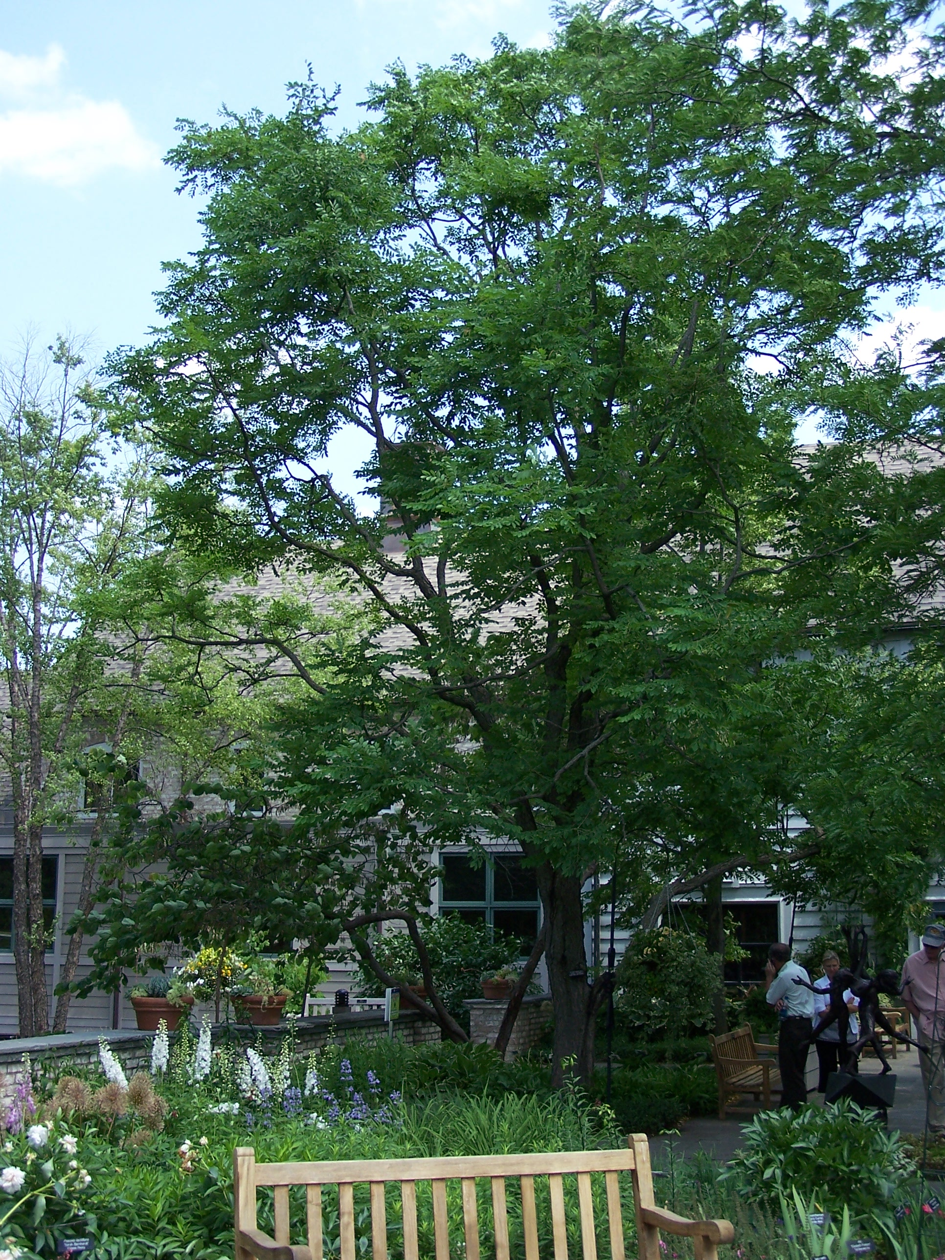 Kentucky coffee tree (upright trunk) at Minnesota Landscape Arboretum